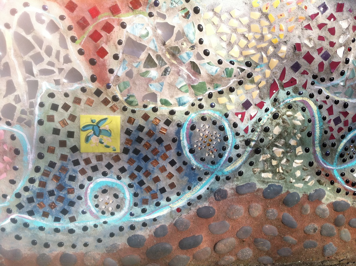 Symphony of Color mosaic (detail) by Donna Pinter, Virginia Highland, Atlanta